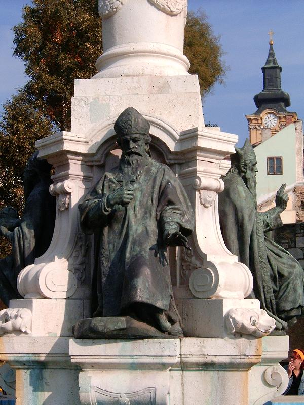 Püspökkút Memorial Column, Székesfehérvár